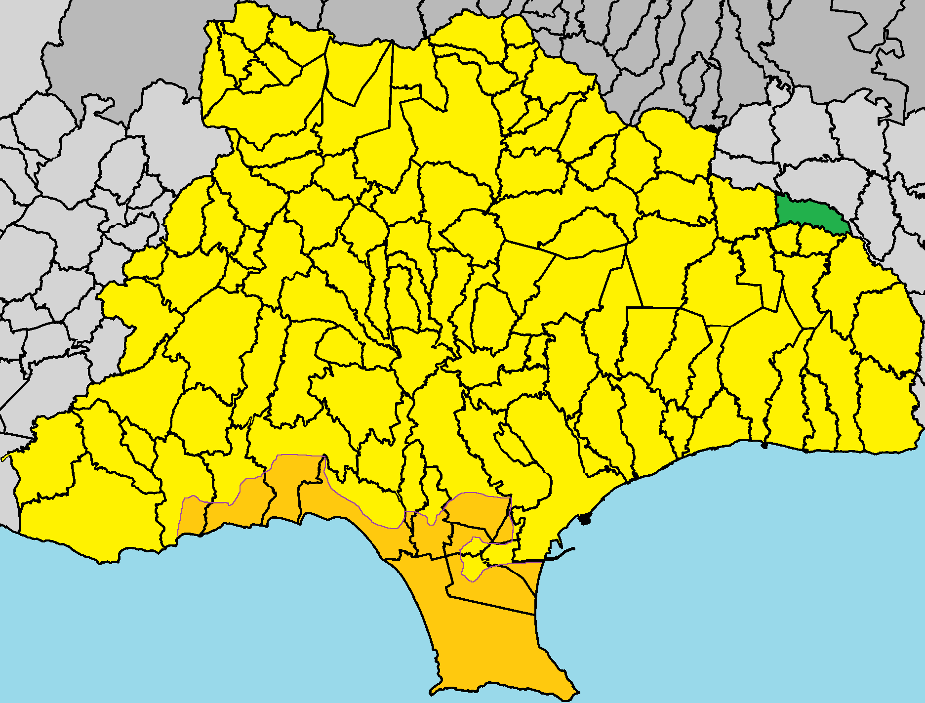 Akapnou in Limassol District.